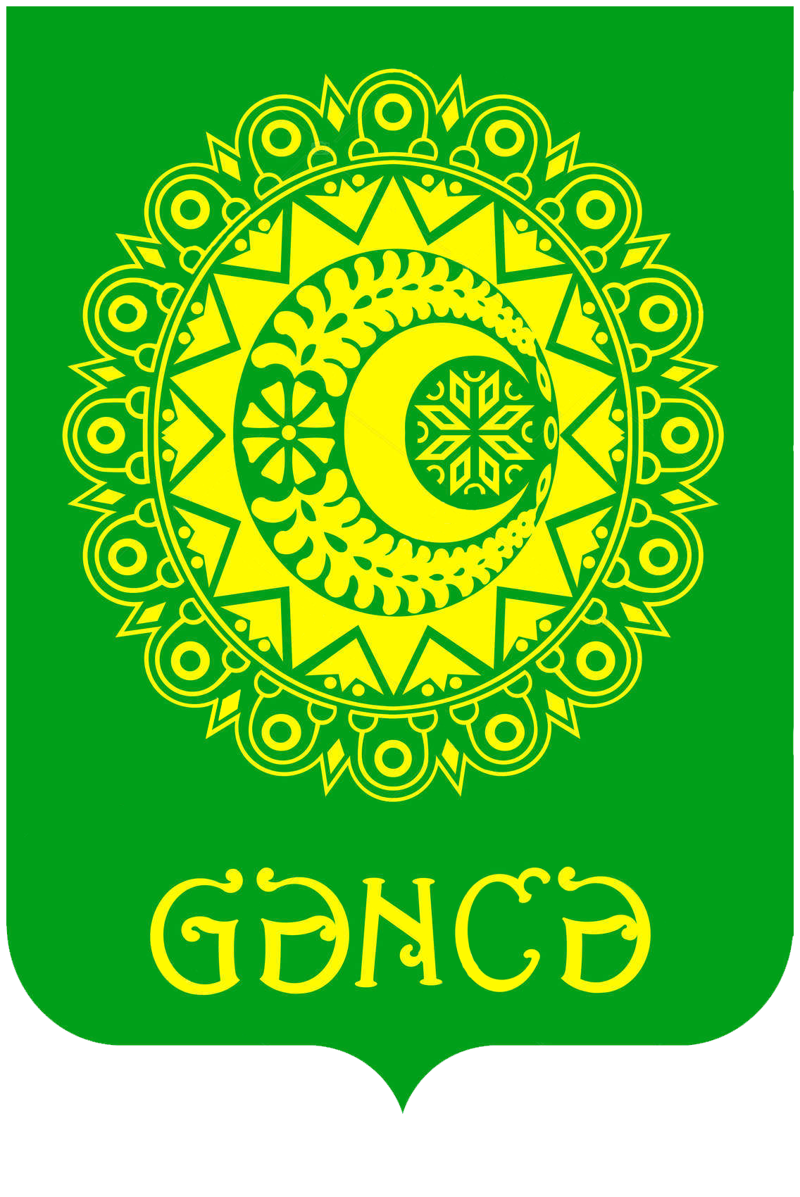 Coat of arms of Ganja, Azerbaijan